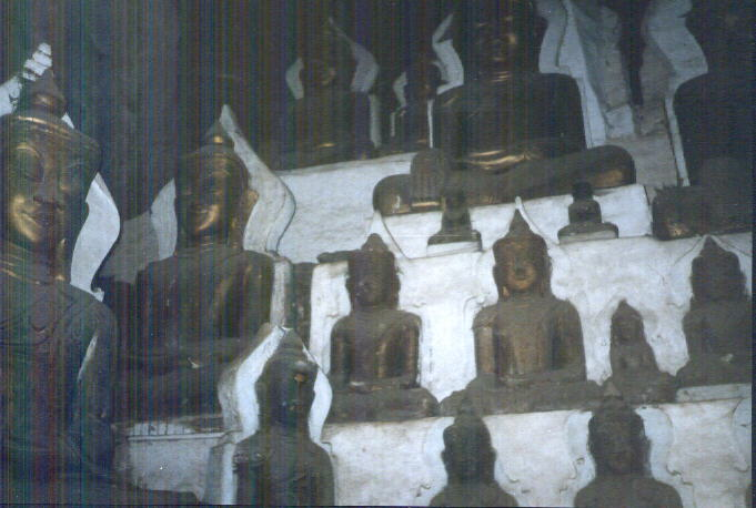 Pindaya caves in Myanmar.